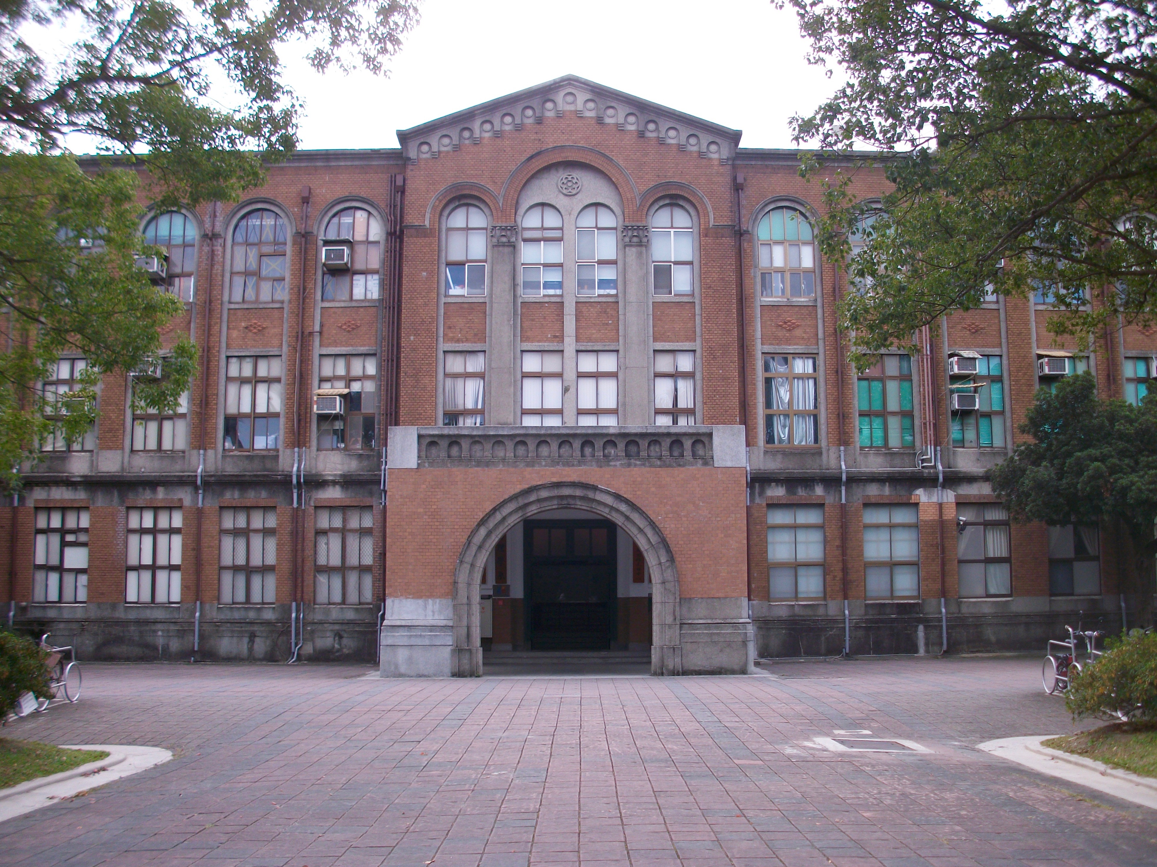 National Taiwan University ("Taihoku Imperial University" before 1945) 2nd Building - Old Physics Building, built in 1931-05-03.